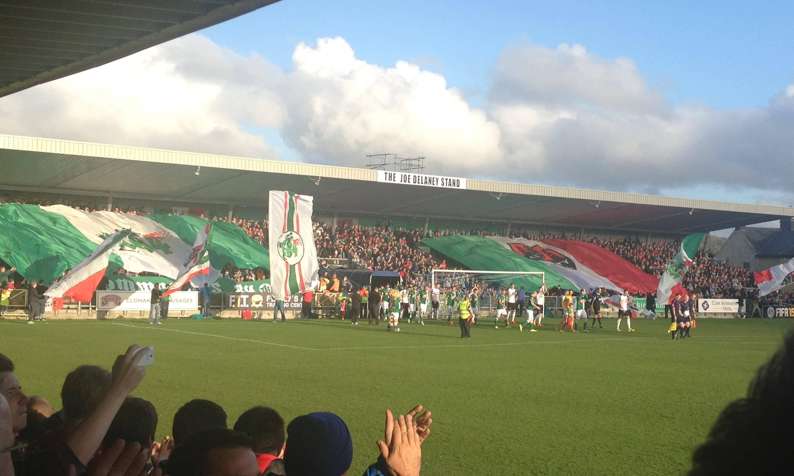 Turners Cross Stadium, Cork, Ireland. Cork City FC's "shed end" supporters display colours as Cork City and Dundalk FC players exit the tunnel. Image taken from Derrynane road stand, looking towards Curragh Road end ("shed end"). The match on 24 April 2015 was played on-front of 6,900 spectators and ended Dundalk 2 Cork City 1.